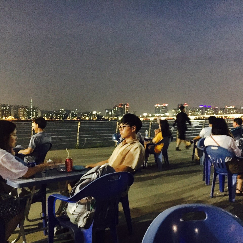 Han river street food